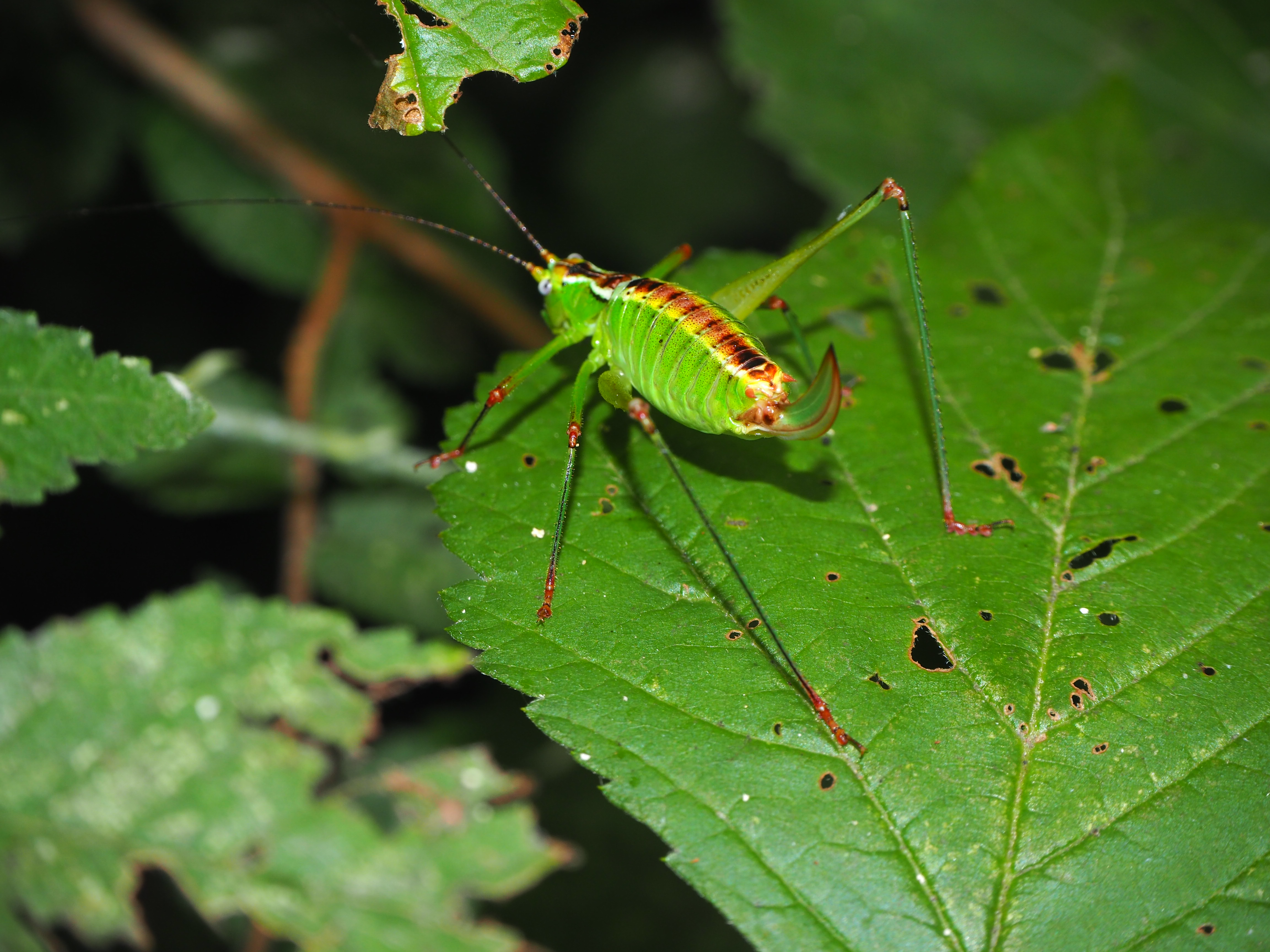 Andreiniimon nuptialis from Bosco di Porporana